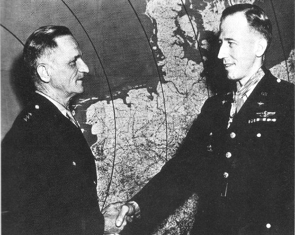 Gen. Carl Spaatz, United States Army and Air Force general awarding the Congressional Medal of Honor to Lt. Col. James H. Howard (right) in London, England